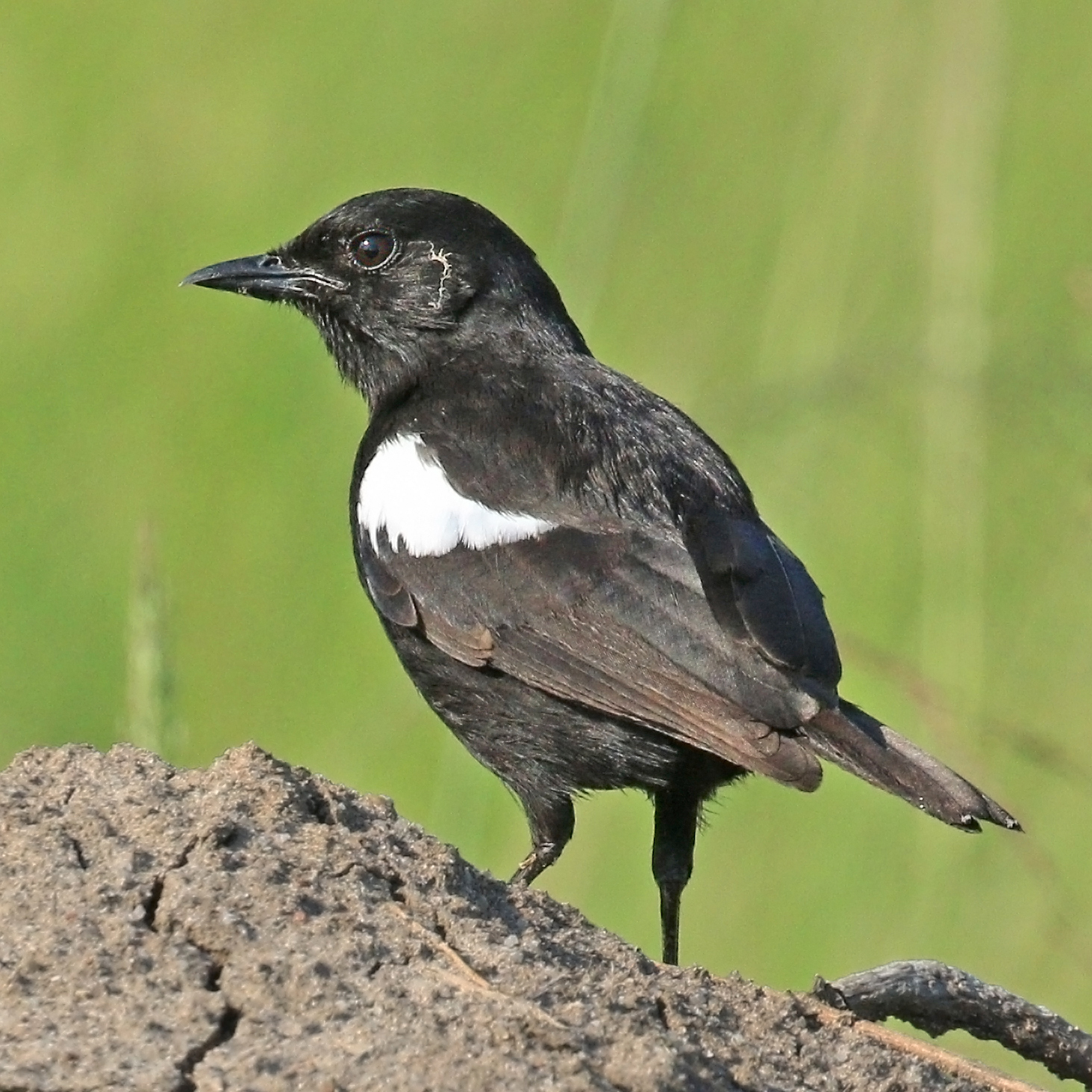 Sooty chat (Myrmecocichla nigra) male, Semliki Wildlife Reserve, Uganda